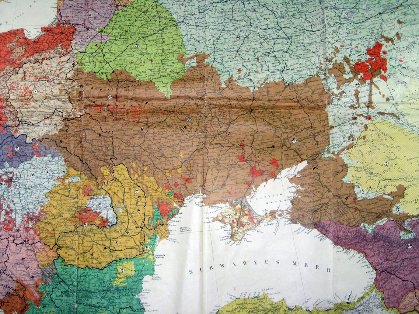 a fragment of a map "Länder- und Völkerkarte Europas" (1918) by Dietrich Schäfer (1845-1929)